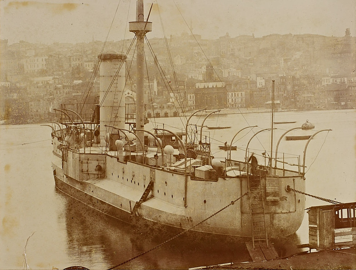 Ottoman ship Feth-i Bulend